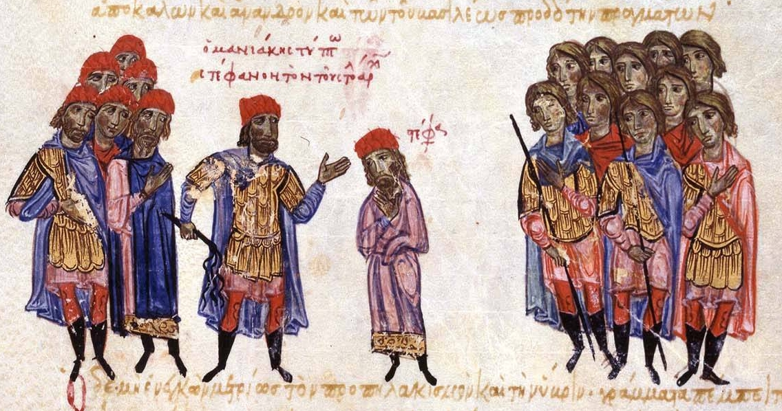 Georgios Maniakes reproaches admiral Stephanos, miniature from the Madrid Skylitzes, Fol. 213v top